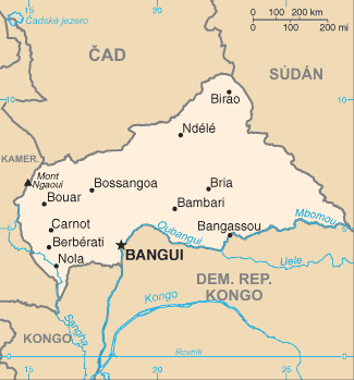 Map of Central African Republic with Czech description.